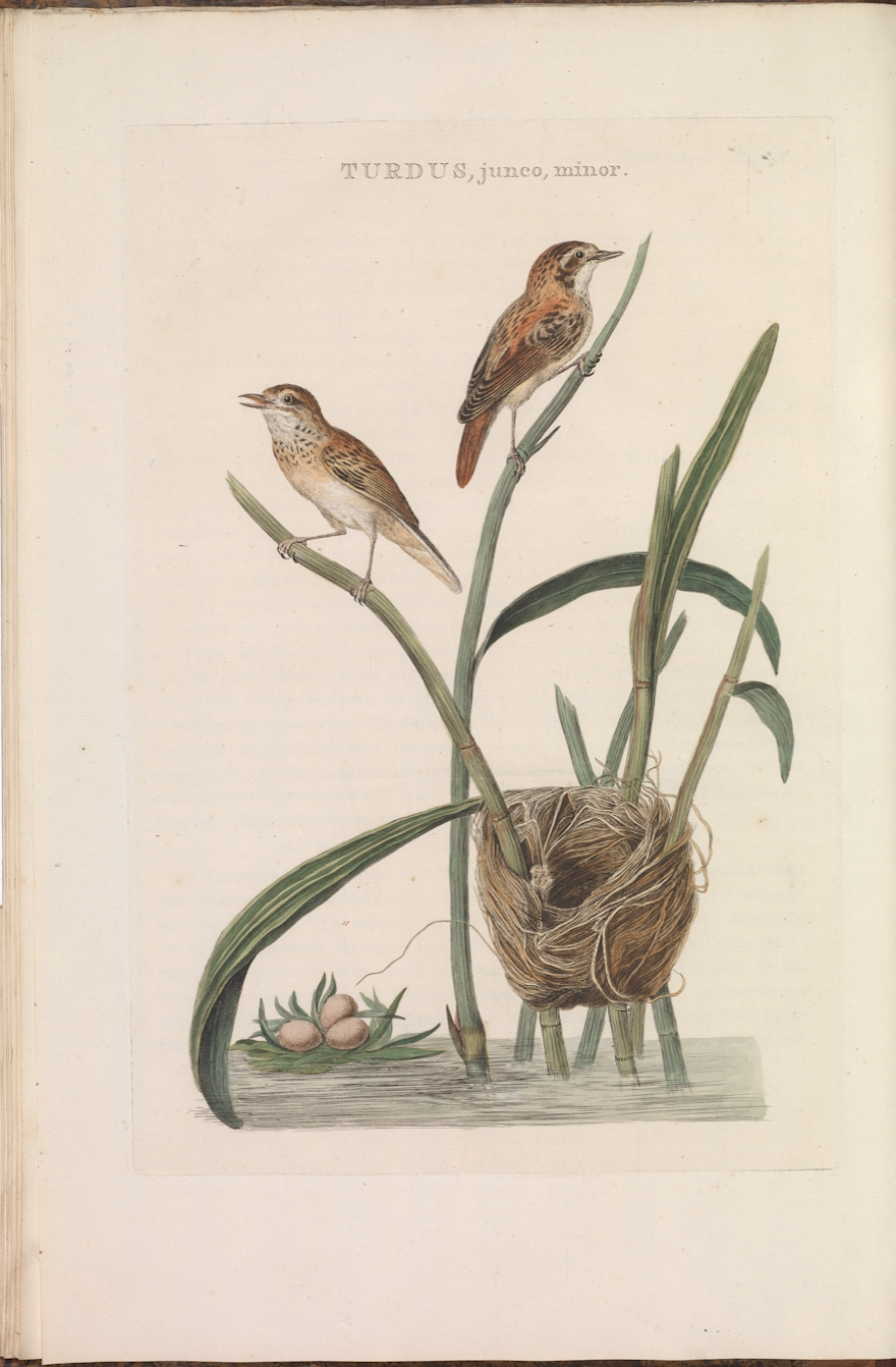 Plate 53 from the Nederlandsche vogelen by Nozeman and Sepp.